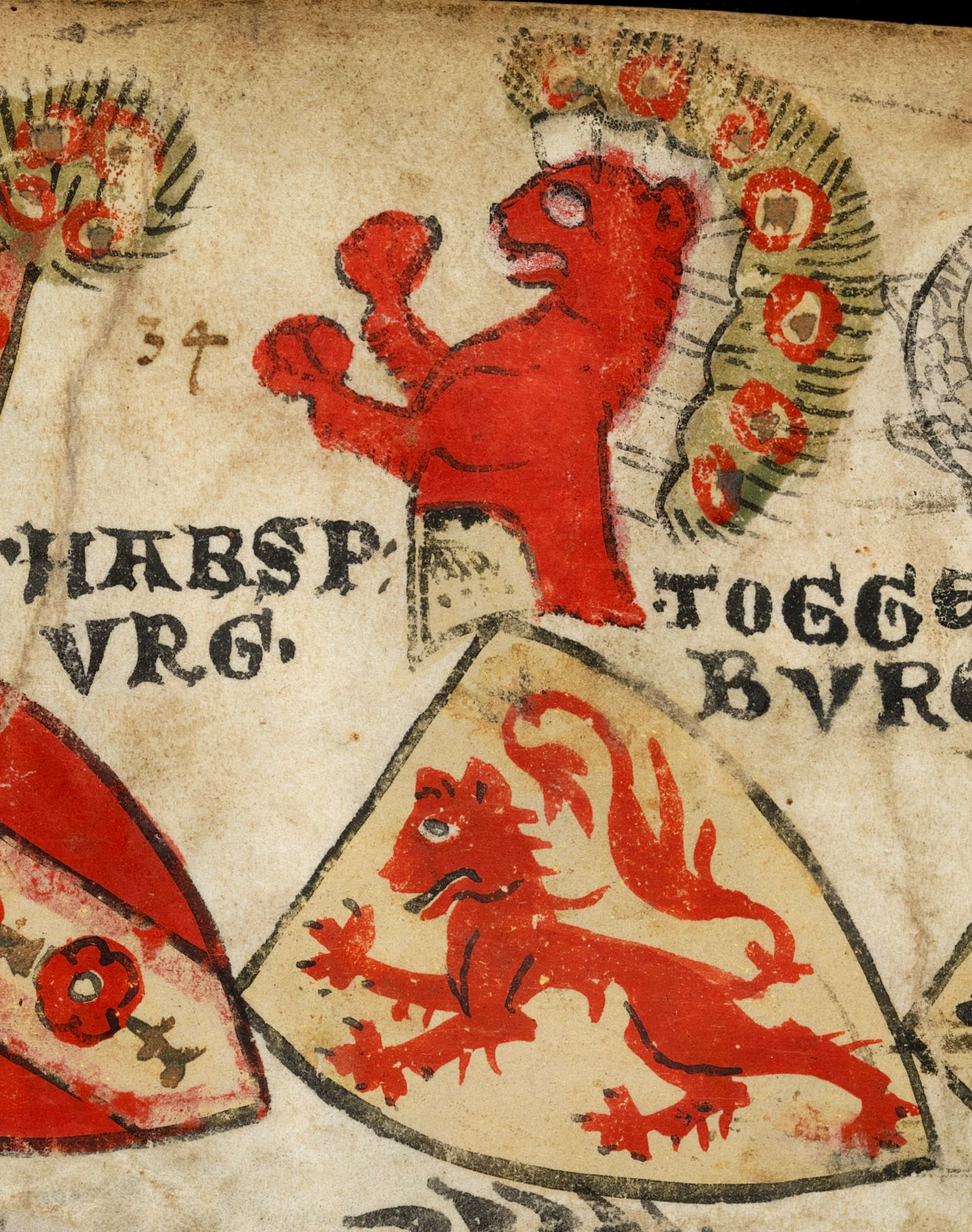 House of Habsburg